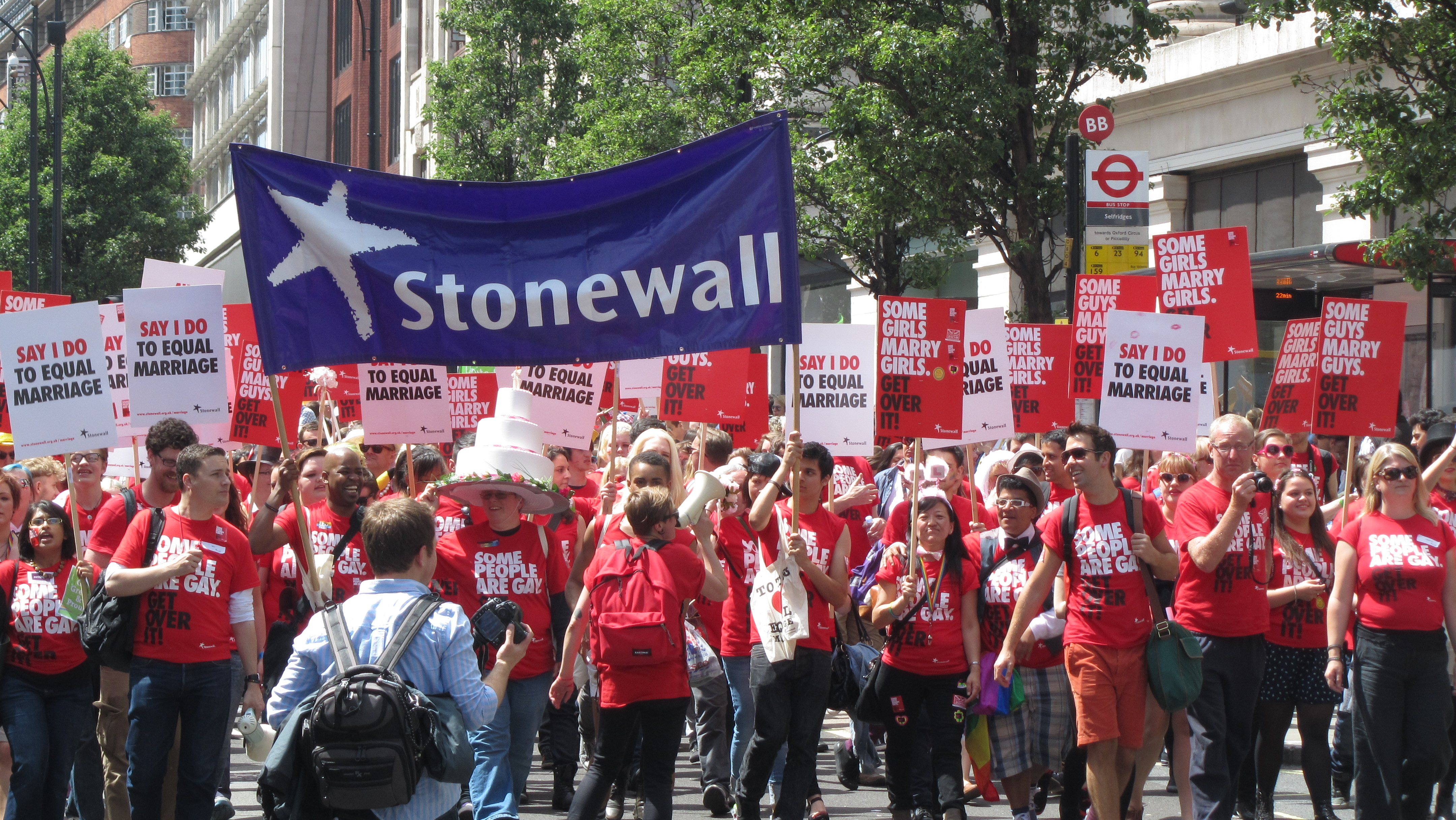 London Pride June 2013